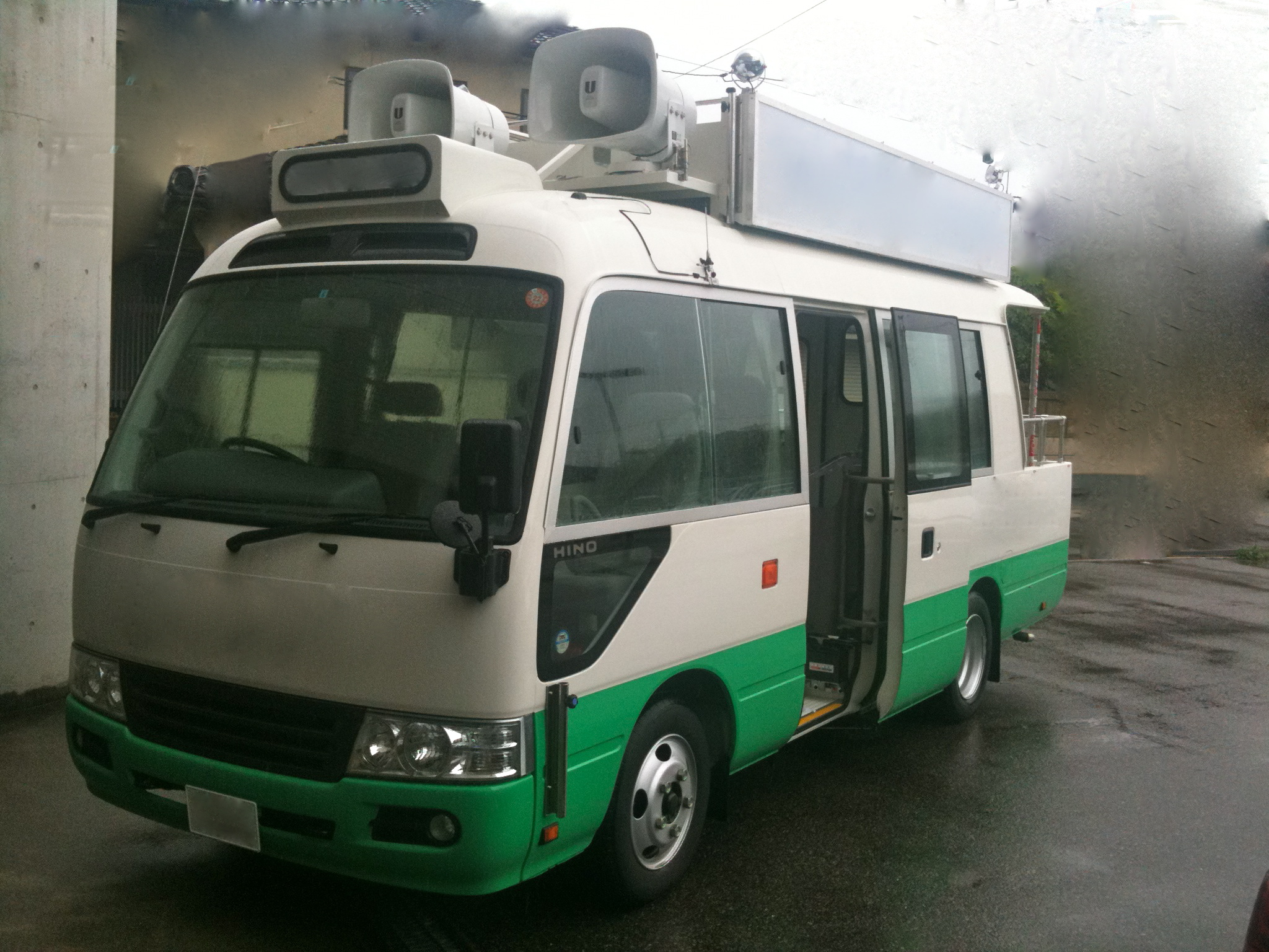 Hino bus converted for an election campaign